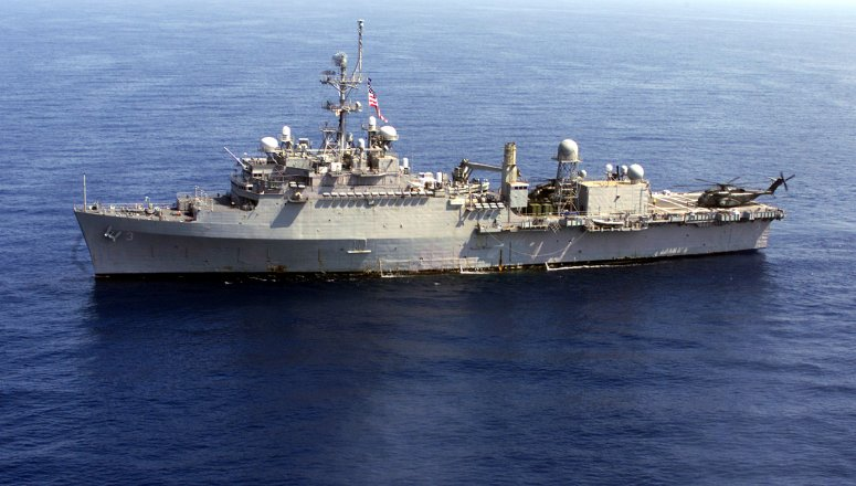 The U.S. Navy command ship USS La Salle (AGF-3) underway.